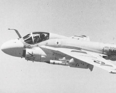 A Grumman A-6B Intruder (BuNo. 149957, AC-510) of attack squadron VA-75 Sunday Punchers from the aircraft carrier USS Saratoga (CVA-60) in the summer of 1971. VA-75 was assigned to Attack Carrier Air Wing Three (CVW-3) during a deployment to the Mediterranean Sea from 3 Jun 1971 to 31 Oct 1971. The first ten A-6Bs (BuNos 149949, 149957, and 151588 to 151595) were obtained by stripping off most of the attack systems of existing A-6As, and substituting them with specialized equipment that could detect radars from surface-to-air missiles. They were equipped with the AGM-78 Standard anti-radiation missile, visible on the left inboard pylon of AC-510.